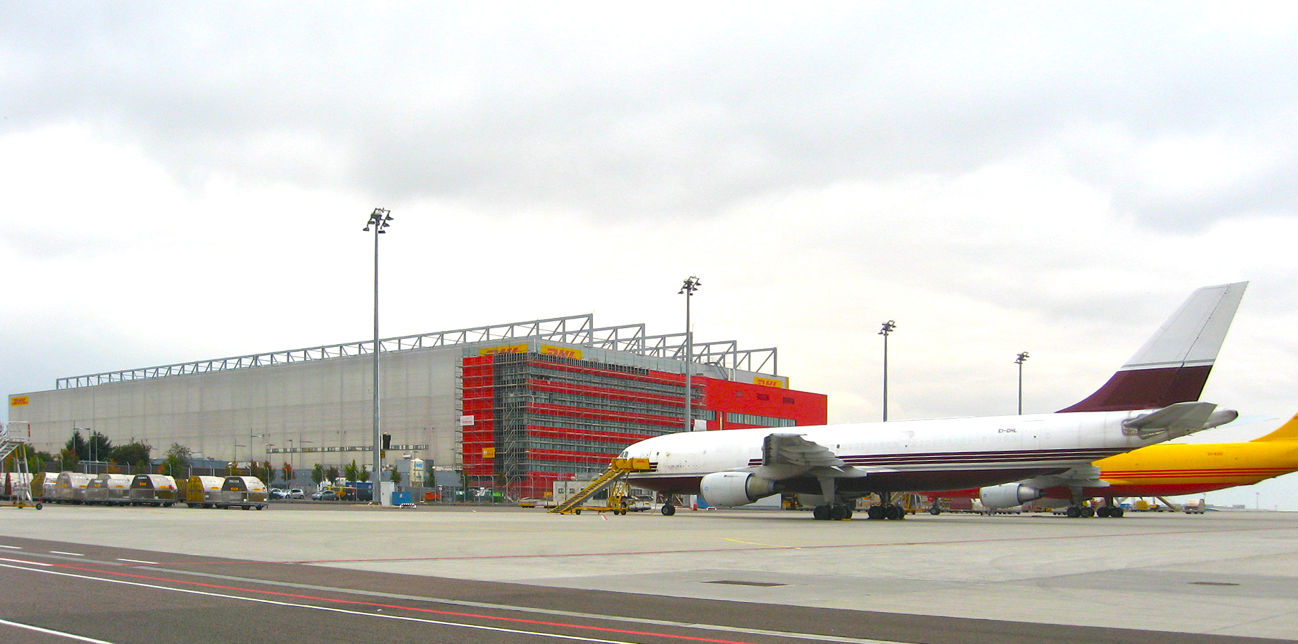 Airplane hangar of the European Air Transport Leipzig GmbH, on the right office building with the red front